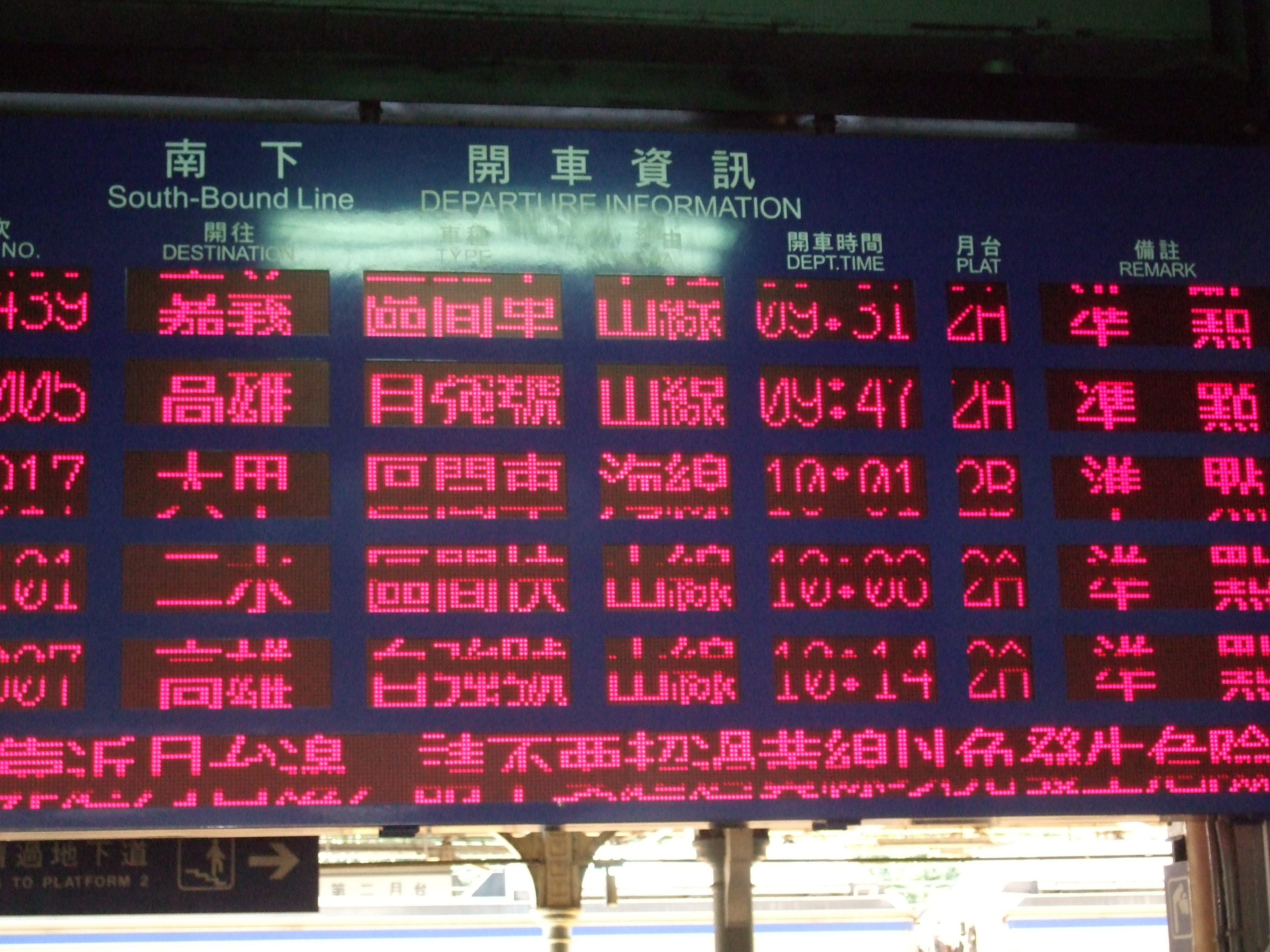 Departure information LED display at Taichung Station, Taiwan Railways Administration.